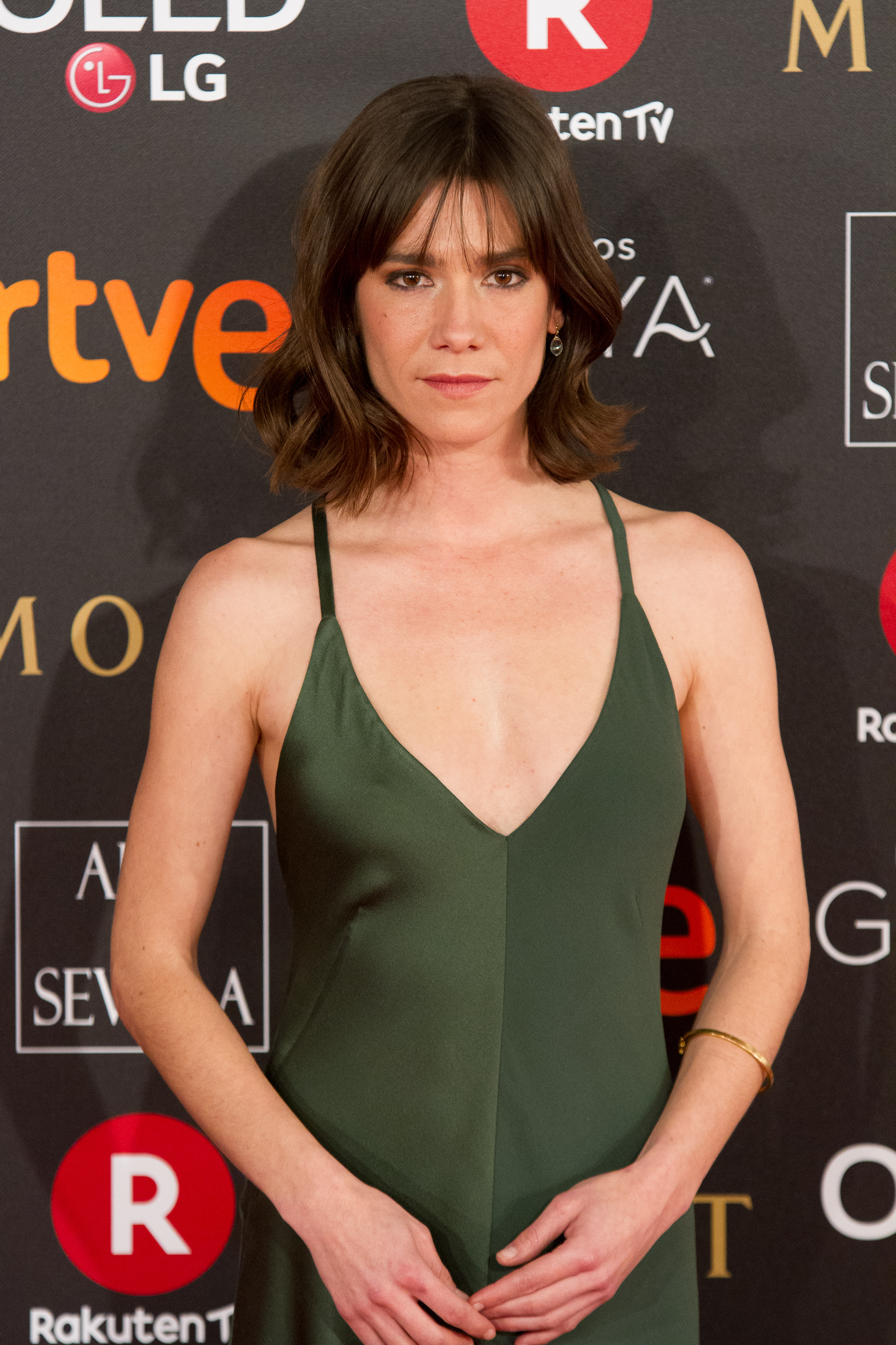 Bruna Cusí at the 32nd Goya Awards, 2018.